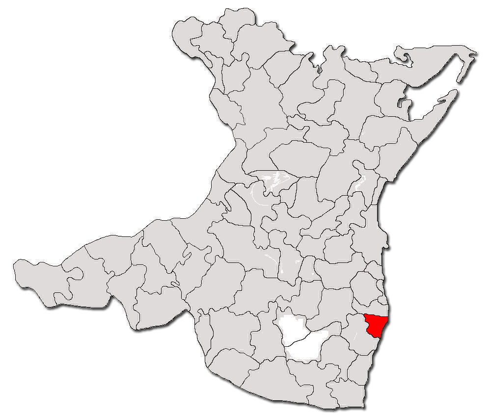 Contour map of commune Costinesti